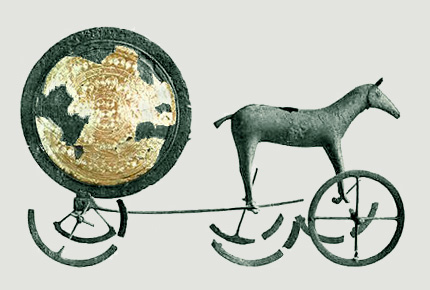 Trundholm Sun ChariotDansk: Solvognen